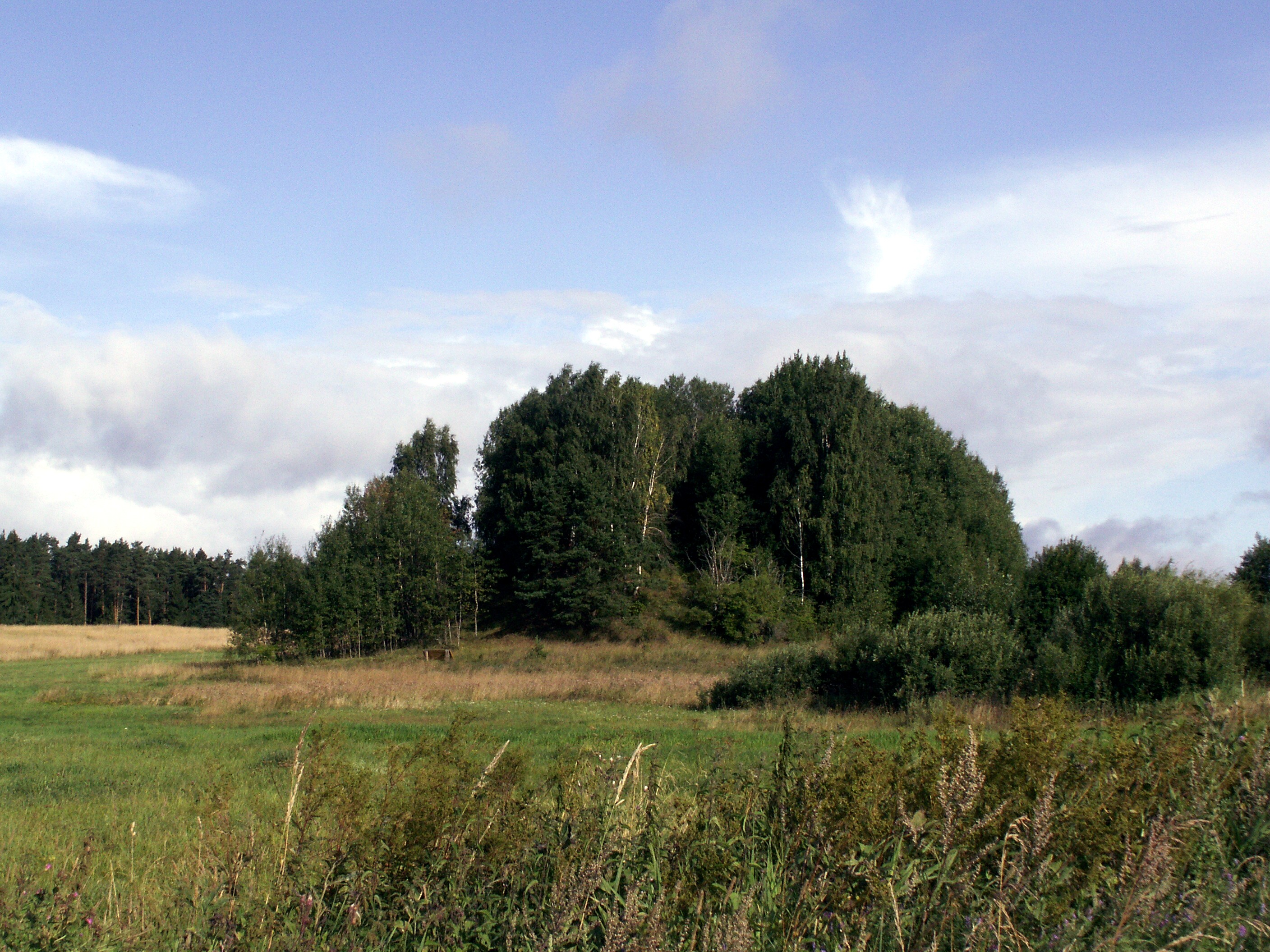 Kurtuvėnai old cemetery, Šiauliai district, Lithuania